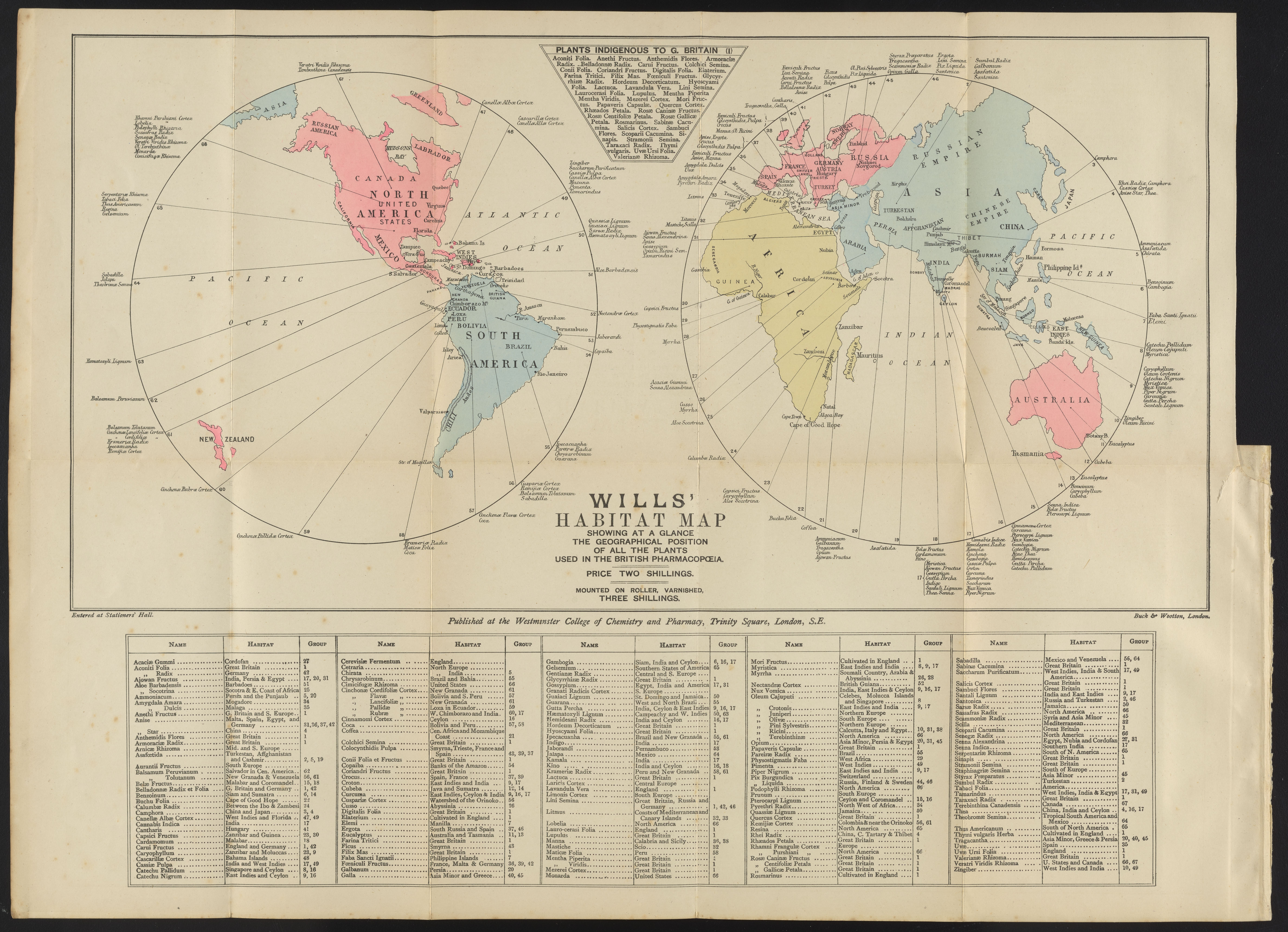 George Wills habitat map from tbe Manual of Vegetable Materia Medica (1886) : Foldout map of the geographical habitat of all the plants used in the British Pharmacopoeia. Includes list of plants indigenous to Great Britain.